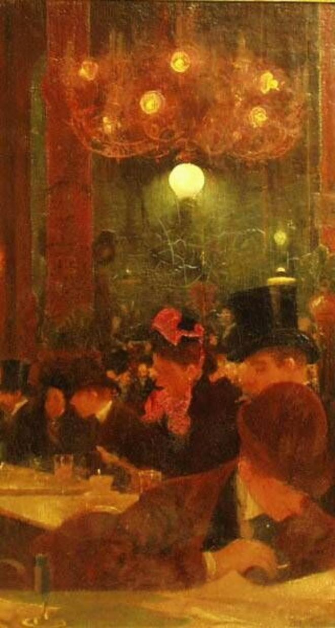 Café